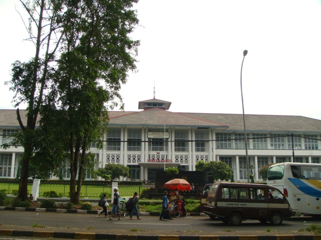 Dwi Warna Building, one of the historical buildings in the city of Bandung, West Java, Indonesia.